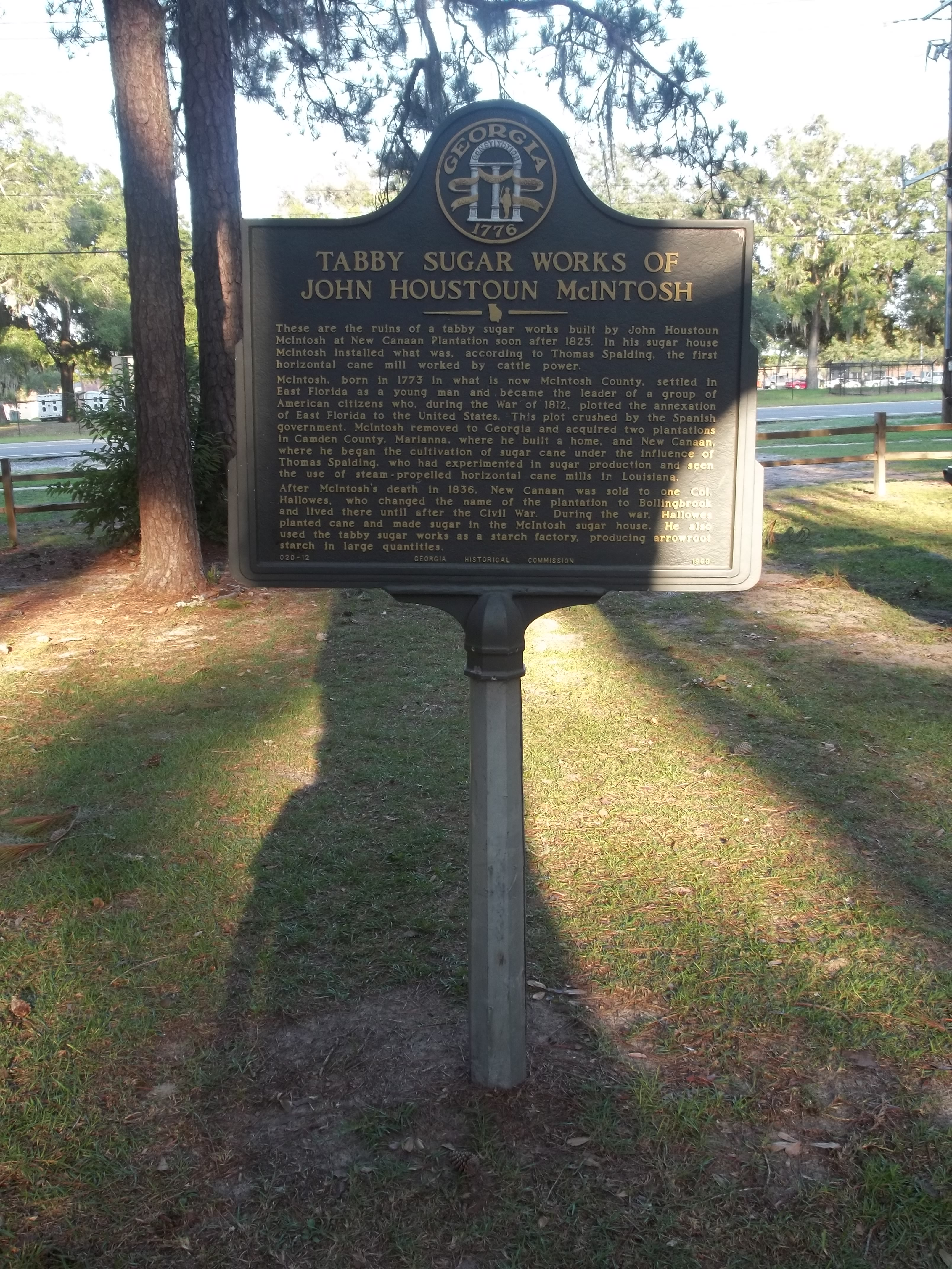 St. Marys, Georgia: John Houstoun McIntosh Sugarhouse: Historical marker.